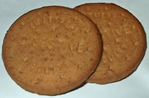 Two Sainsbury’s Basics digestive biscuits.